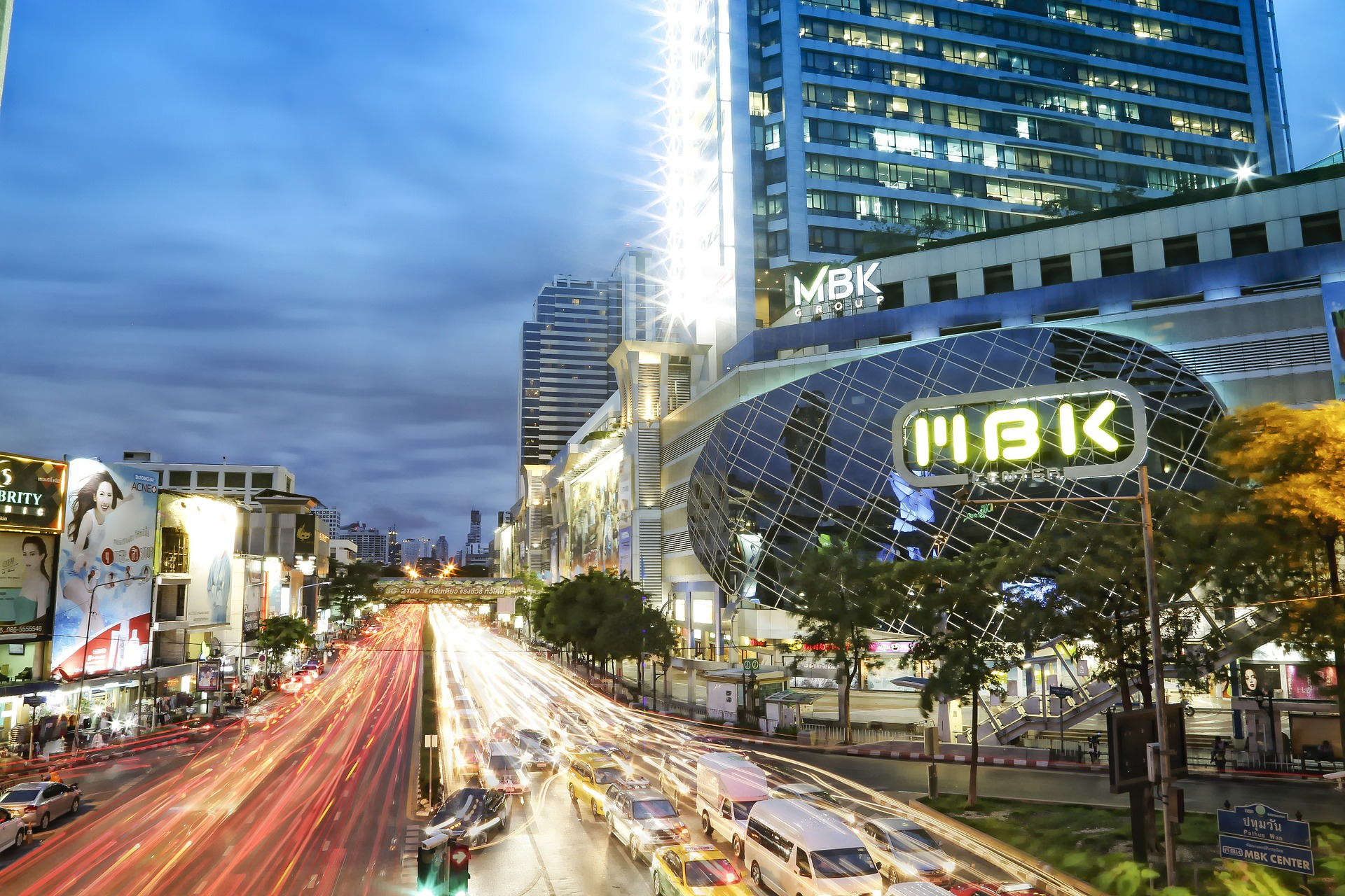 MBK Center at Pathum Wan intersection in Bangkok at night with light trails on Phaya Thai Road